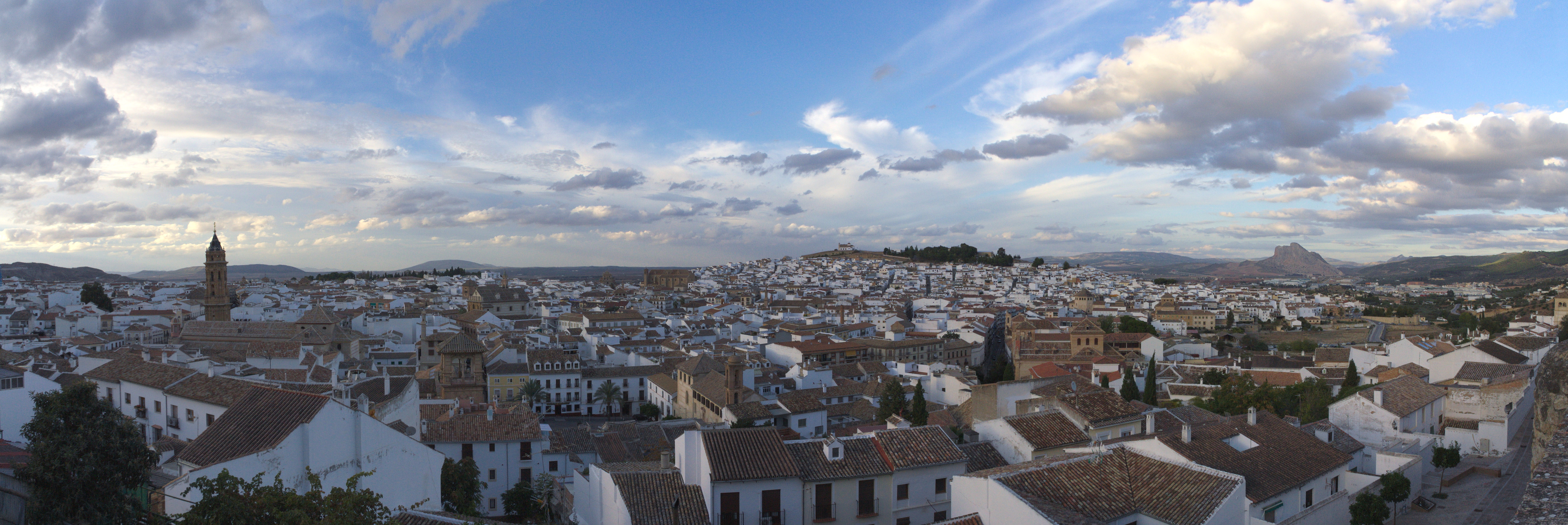 Antequera from Viewpoint Almenillas